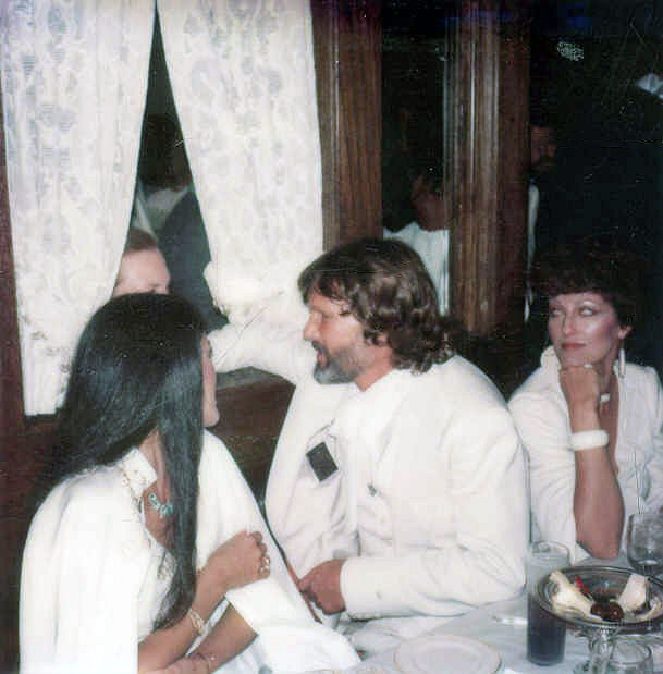 Rita Coolidge and Kris Kristofferson at the private party after the premiere of the movie A STAR IS BORN, on the third floor of Dillon's Disco 12/18/76 (photo is poor quality because it's a Polaroid SX-70 photo)